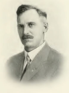 Baker Tools Company founder Reuben Carlton "Carl" Baker in 1919.